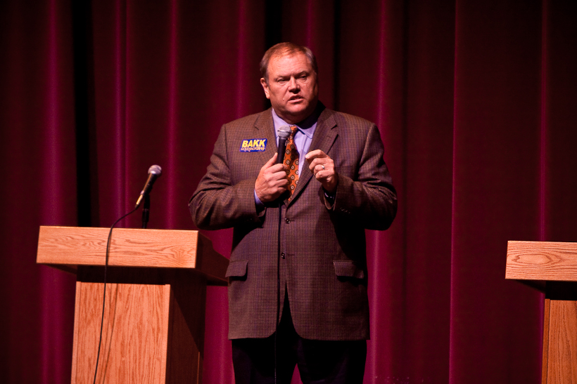 State Senator Tom Bakk answers a question before an audience at the DFL Gubernatorial Debate at the Hopkins Center for the Performing Arts on Tuesday, November 24, 2009.